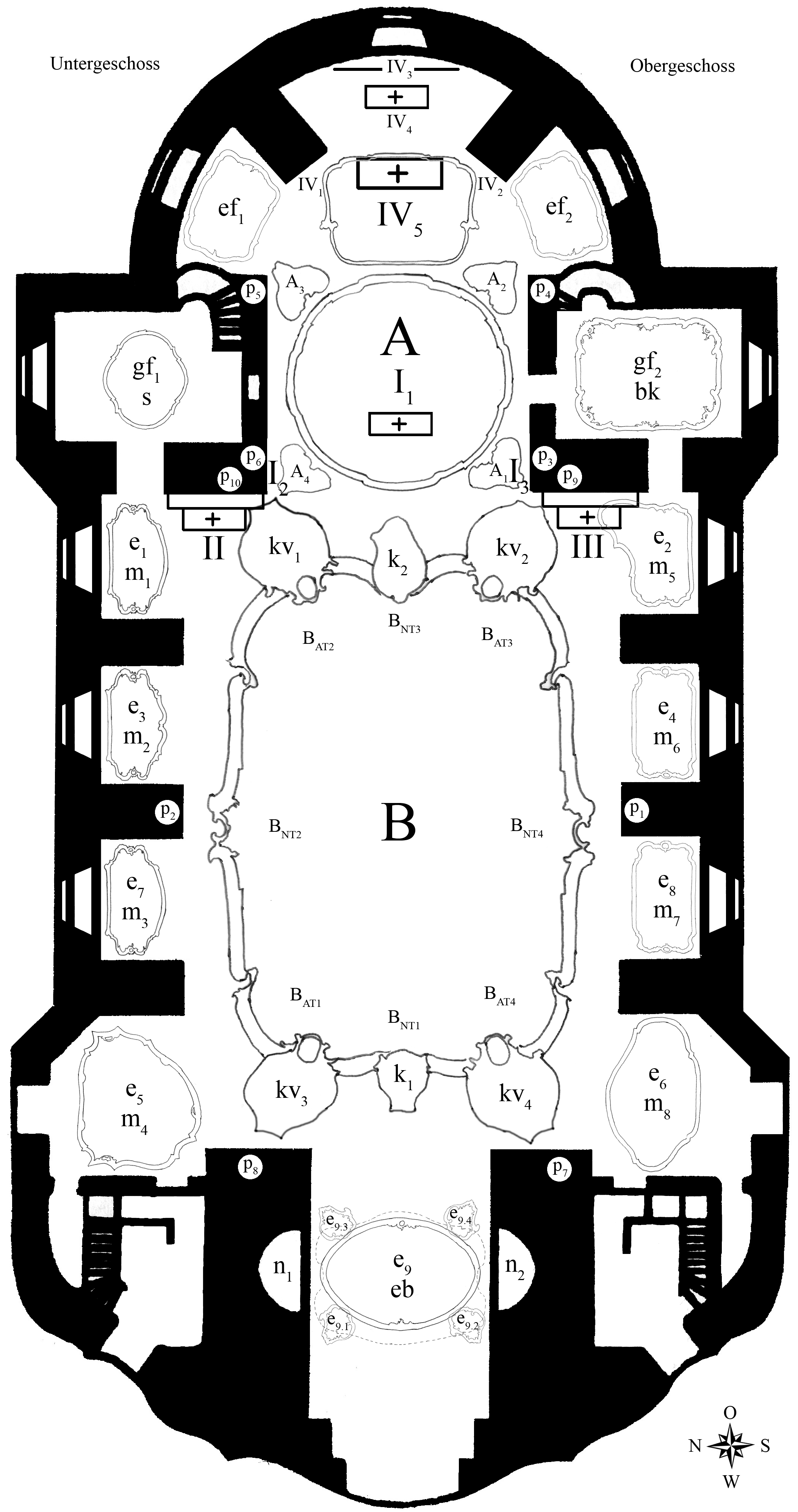 outline of the iconographic program